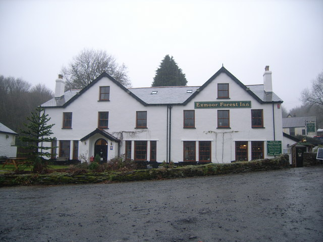 Exmoor Forest Inn, Simonsbath What a wet and miserable day!